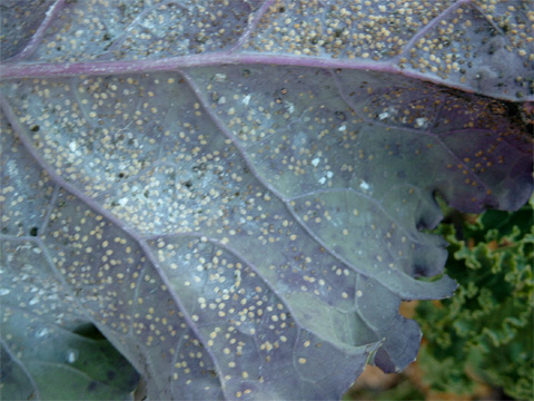 Damage on leaf, caused by Trialeurodes vaporariorum Beschreibung: Blattunterseite einer, von der weißen Fliege befallenen, Pflanze Quelle: selbst fotografiert Fotograf: B. Schroeren